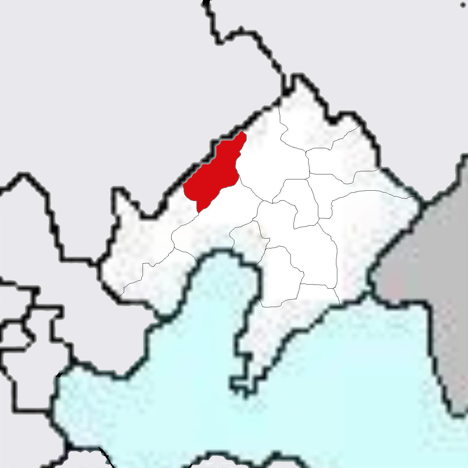 Locator map of Fuxin Prefecture — northwest Liaoning Province, in northeastern China.